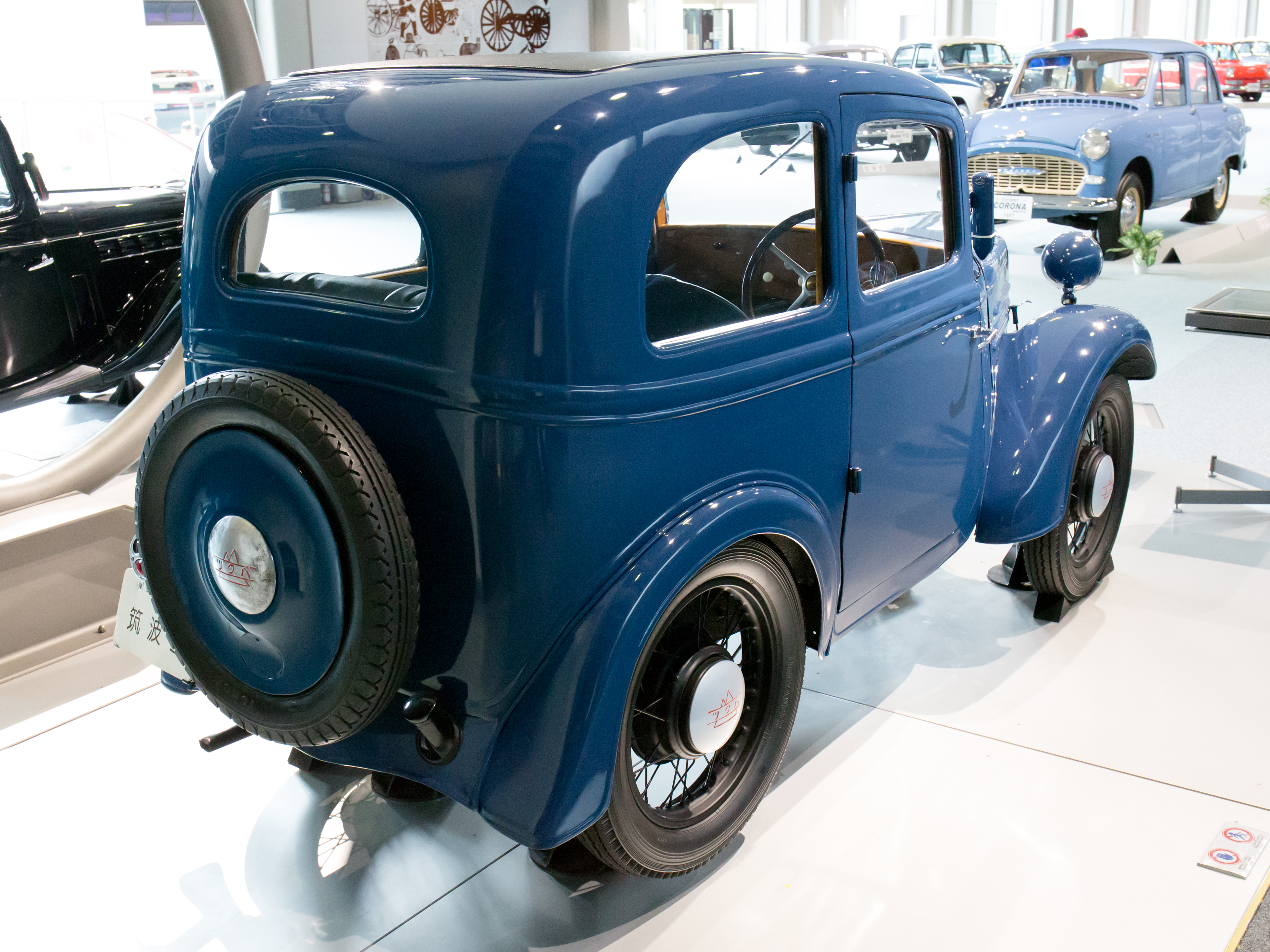 1935 the Tsukuba (Tsukuba-go, by Tokyo Jidosha Seizo Corporation)